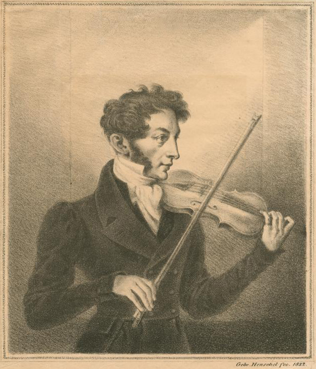 German violinist Ignaz Peter Lüstner (1793-1873)